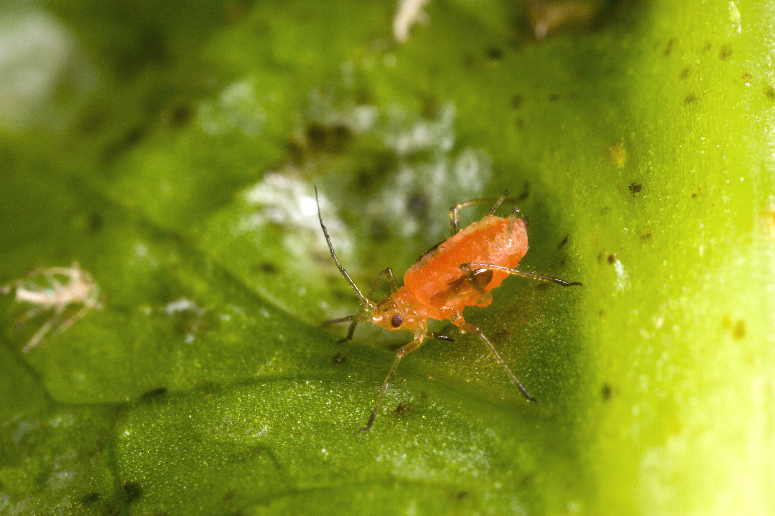 A close-up image of a lettuce aphid on lettuce on Nov. 6, 2006. This pest (about 1-3 millimeters long) appeared in California’s Salinas Valley in 1998 and is now found in all lettuce-production areas of that state and Arizona. USDA photo by Stephen Ausmus.